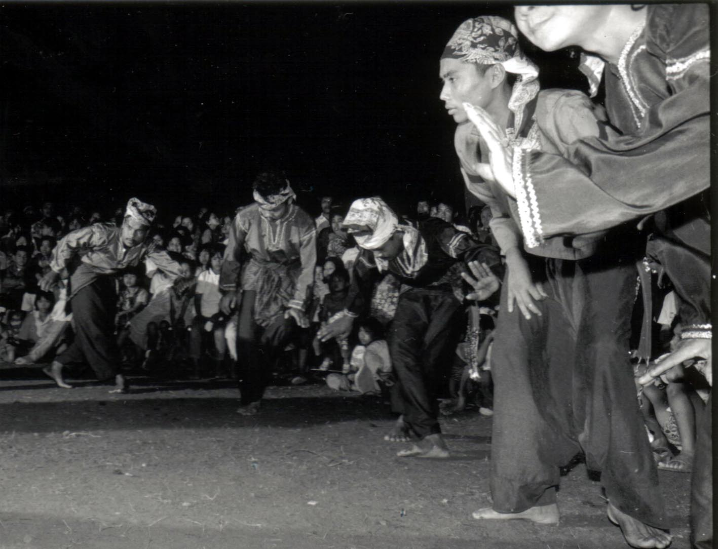 Photo by Edy Utama, released under Creative Commons License.